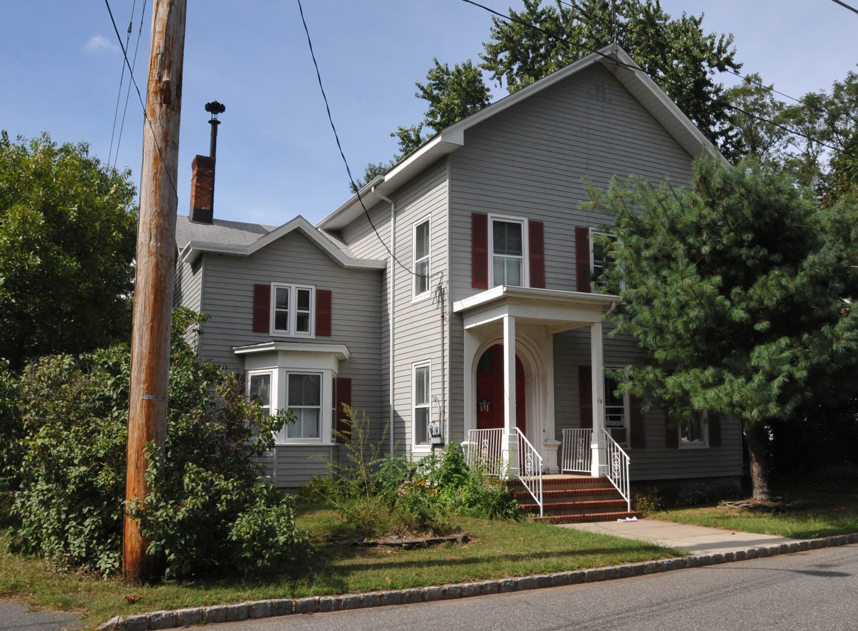 JAMES CRAWFORD THOM HOUSE; ITALIANATE HOME OF RENOWNED ARTIST FROM CIRCA 1870 TO 1898; HIS MOST FAMOUS PAINTING IN “WINTER AT OLD BRIDGE” AND HIS PAINTINGS HANG IN THE SMITHSONIAN AND THE STATE MUSEUM IN TRENTON